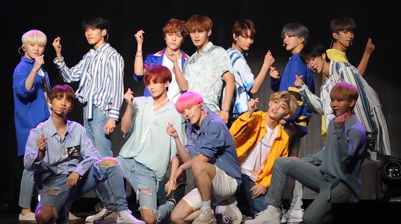 Seveteen performing the song "Oh My!" at their showcase for their 2018 EP You Make My Day on 16 July 2018